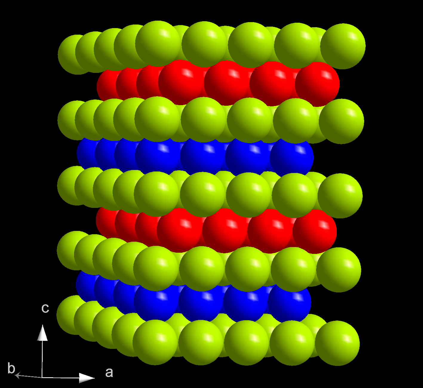 (double hexagonal) closest packing ABAC as found in crystal structures of alpha-La and alpha-Cm (A: green, B: red, C: blue)